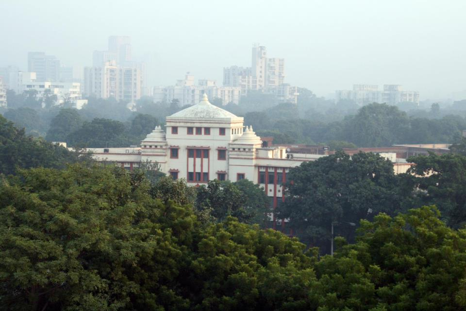 Bharatiya Vidya Bhavan's Delhi - main building.